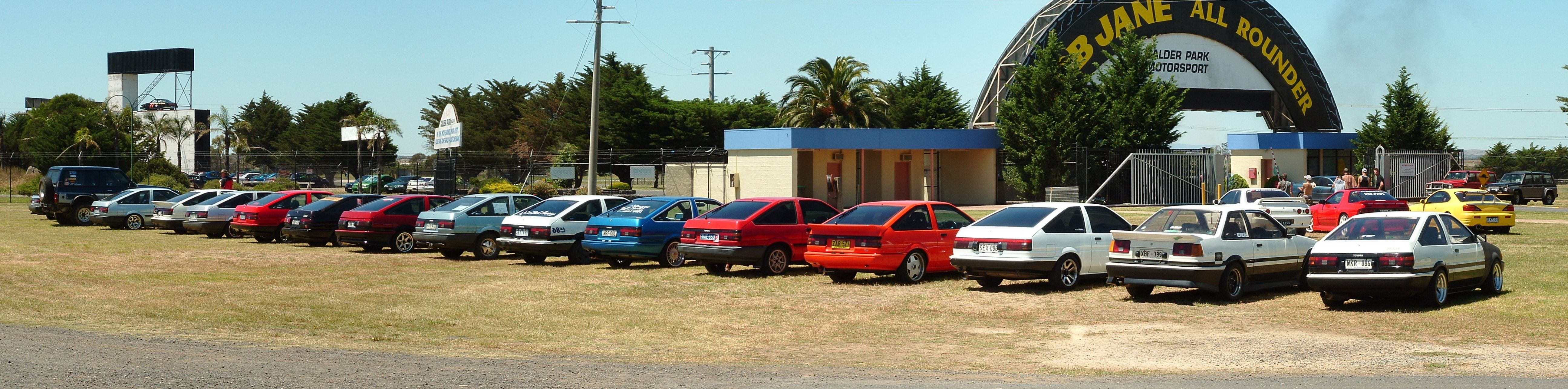 Panorama photo of several AE86s at Calder Park, Melbourne, Australia. (Autostitched.)